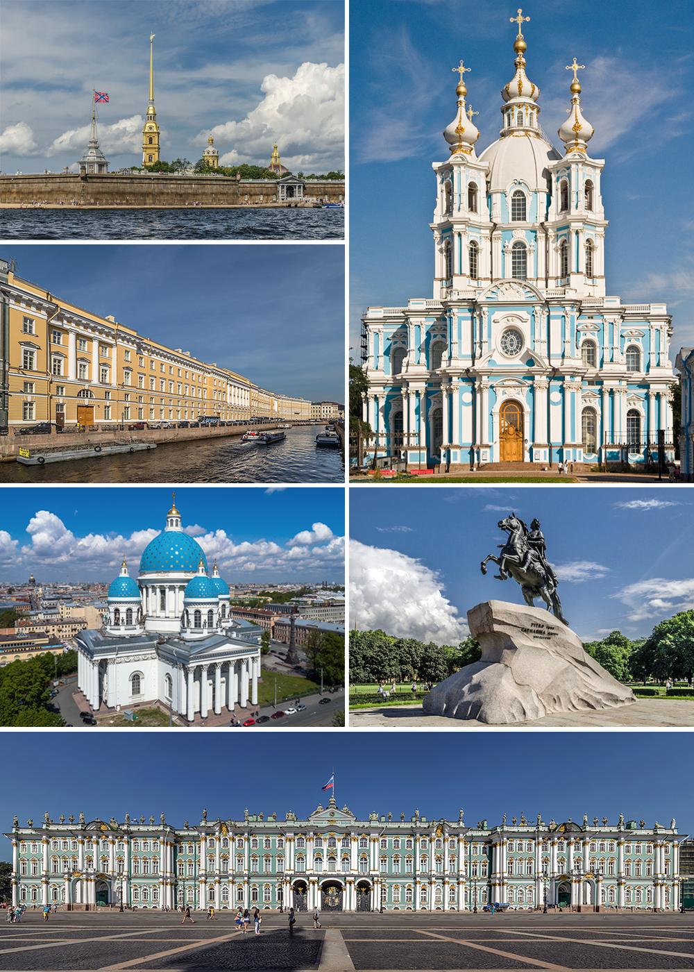 Saint Petersburg Collage